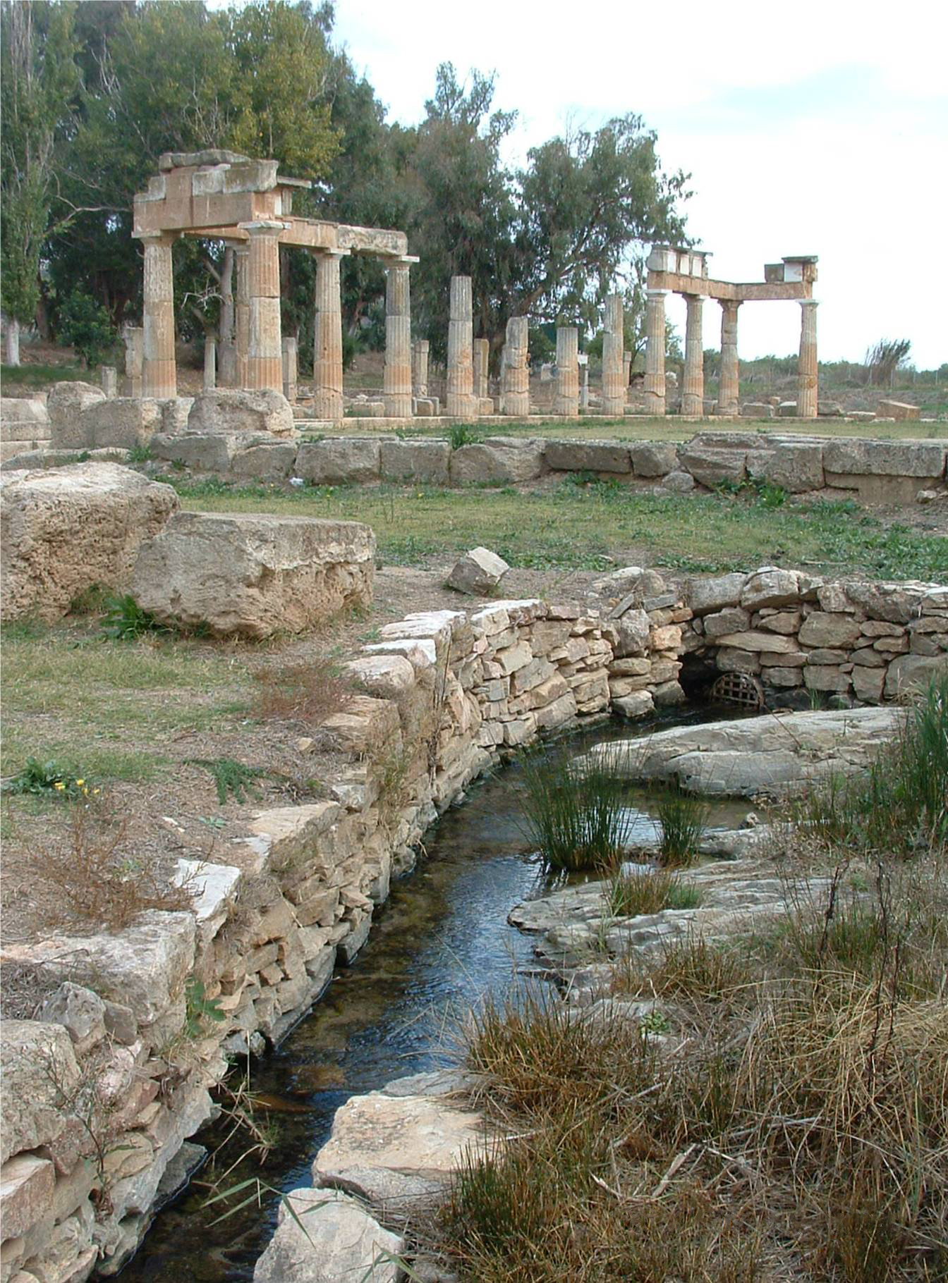 Photo of Brauron